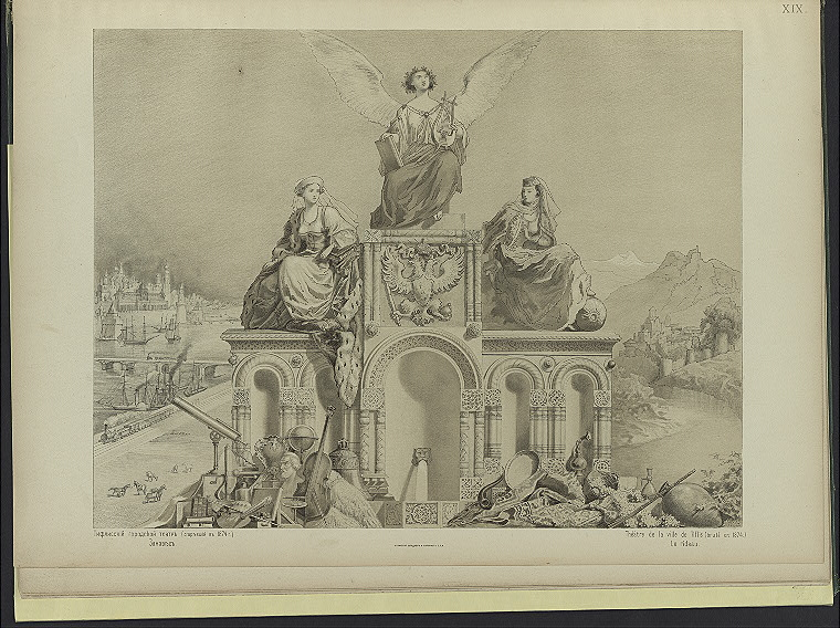 Tiflis city theater, curtain.